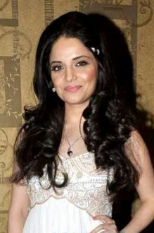 Audio release of ‘Huff! – It’s Too Much’